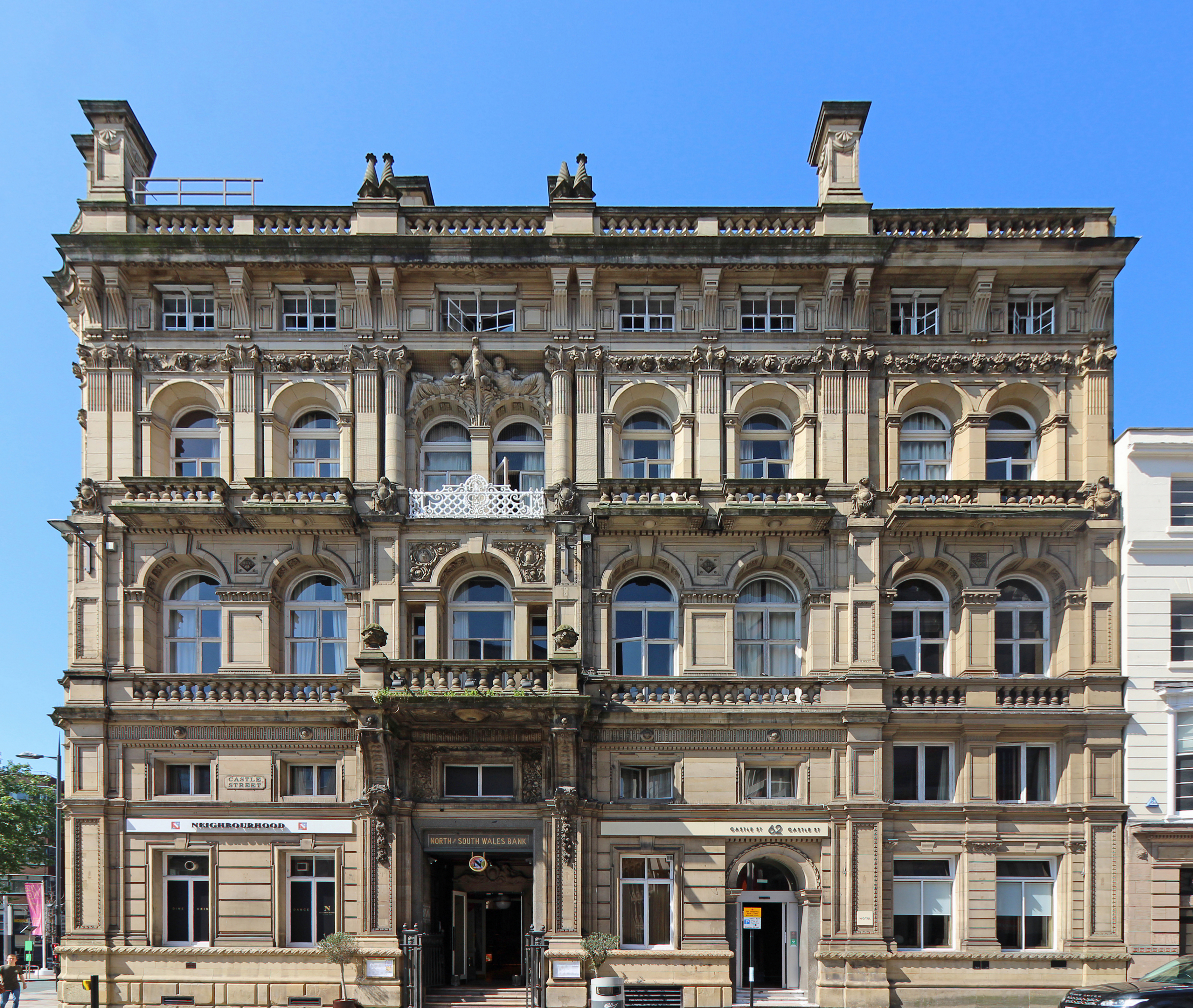 Eastern elevation on Castle Street; Grade II listed former bank, 1864